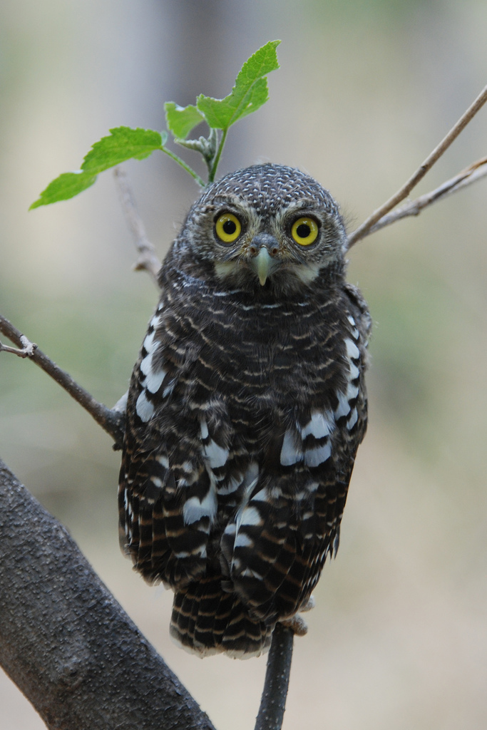 There was a pair of African Barred Owlets Glaucidium capense nesting in a dead tree in Little Kwara Camp, Botswana. Sometimes they walk around the camp and grab baby birds for dinner.